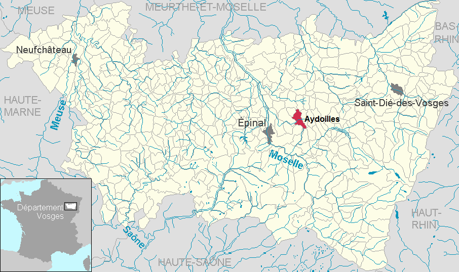 Aydoilles in the department of Vosges, Lorraine, France